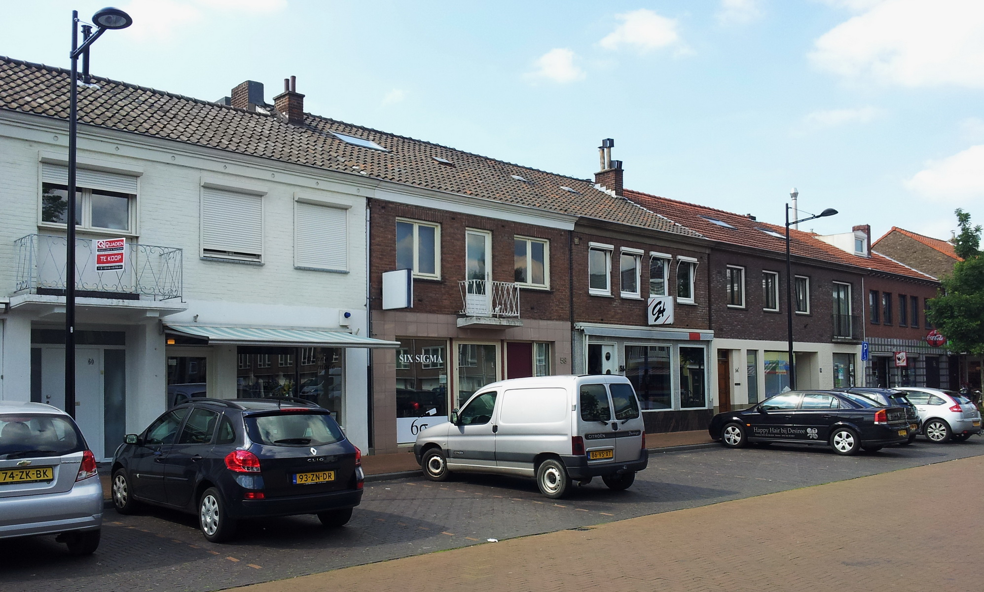 Maastricht, the Netherlands. Local shops in the northeastern neighbourhood of Nazareth.